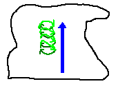 Development of mesocyclone - part 2